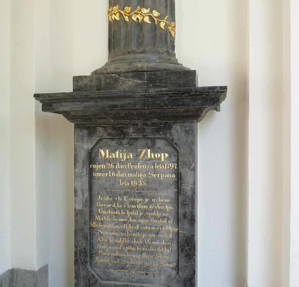 Matija Čop gravestone in Navje, Ljubljana (Slovenia). Erected in 1840.